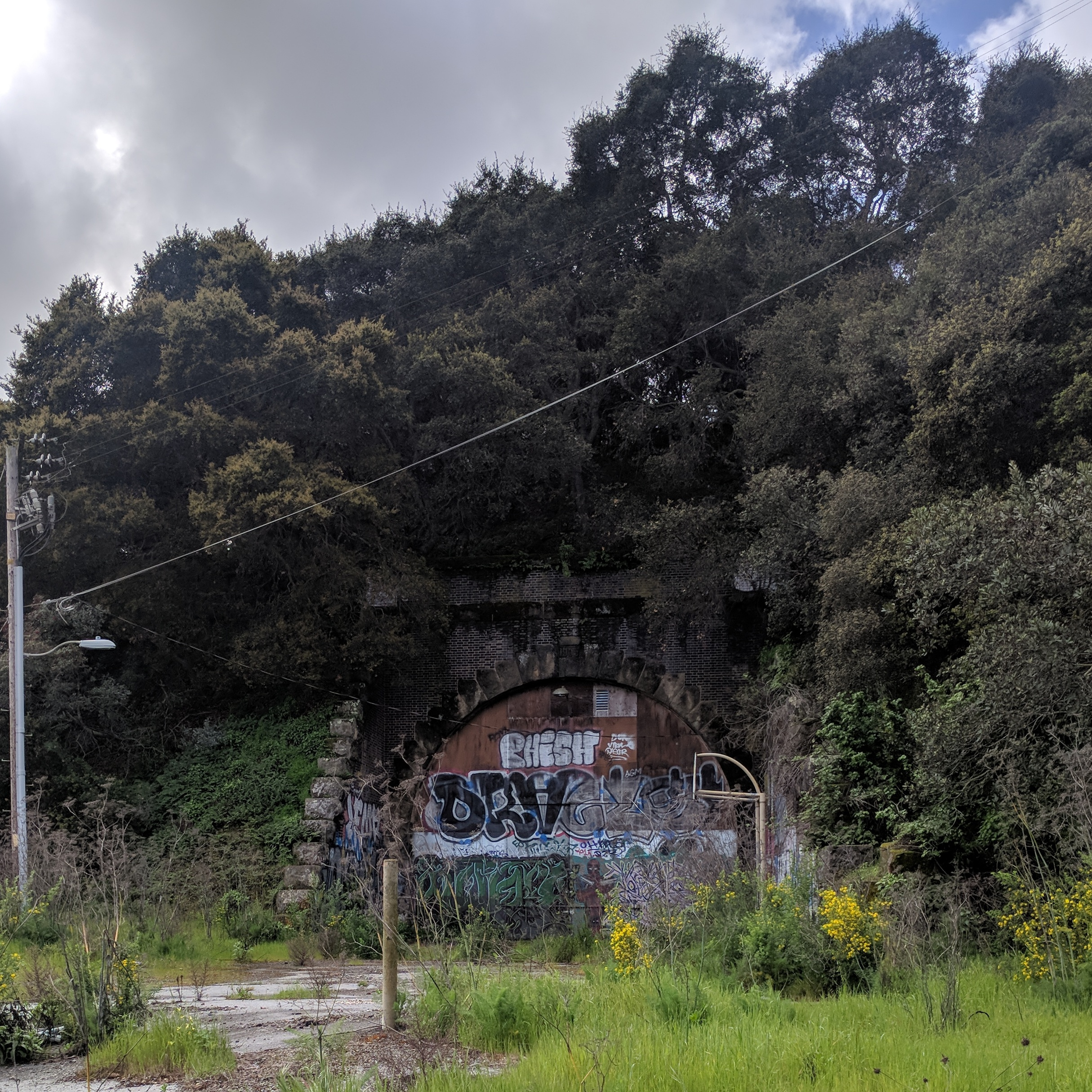 North Portal of Tunnel 5, Bayshore Cutoff